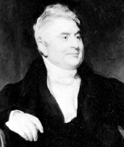 Sydney Smith (1771 - 1845)